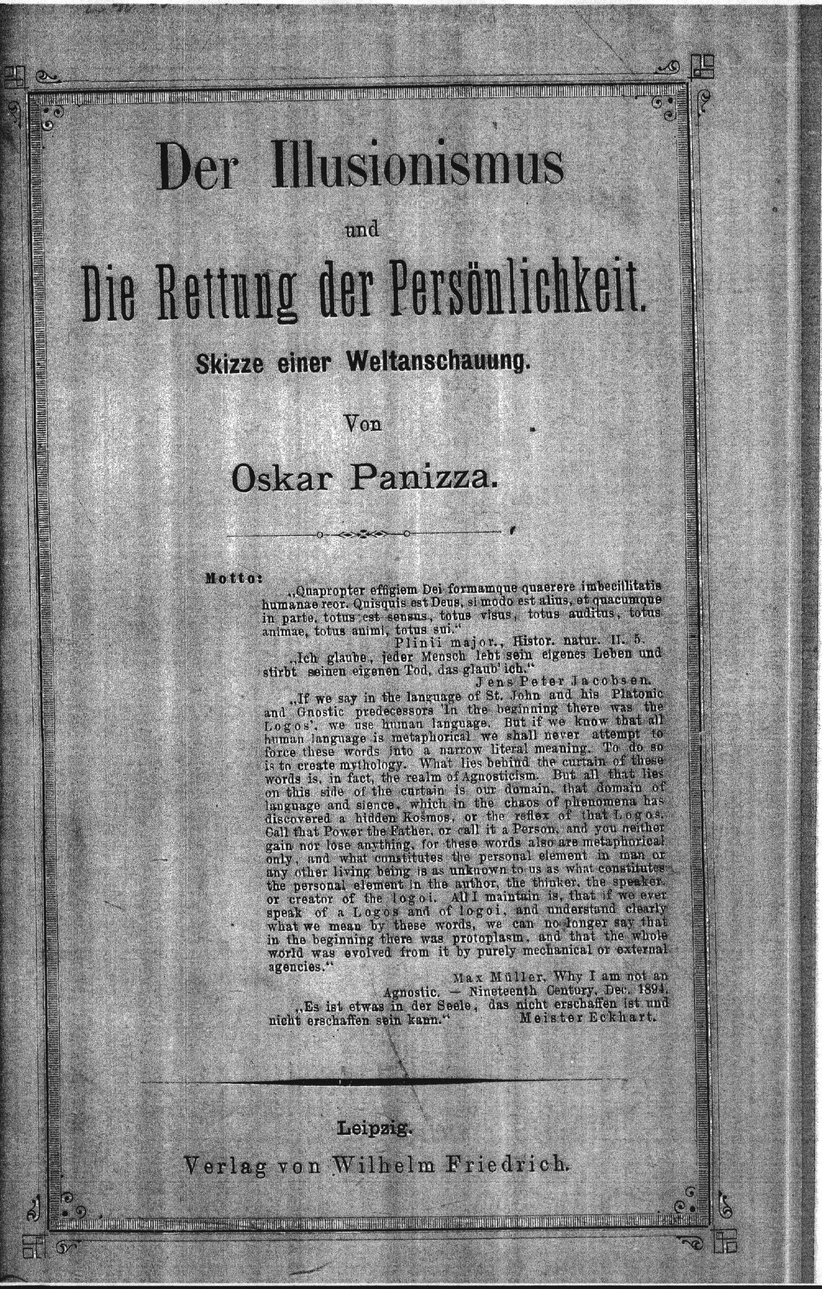 This is a scan of the historical document